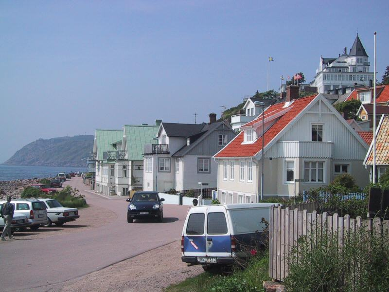 From enwiki Photographer , uploaded July 2004